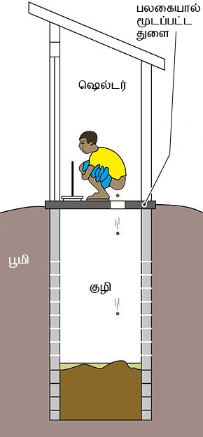 Schematic of a simple pit latrine